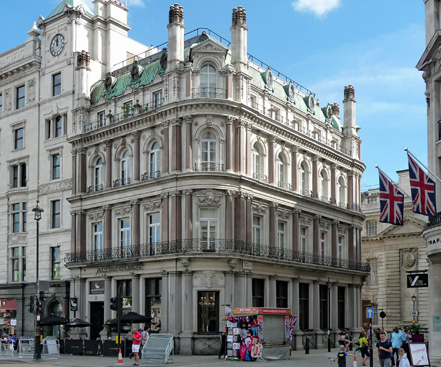 66 Trafalgar Square